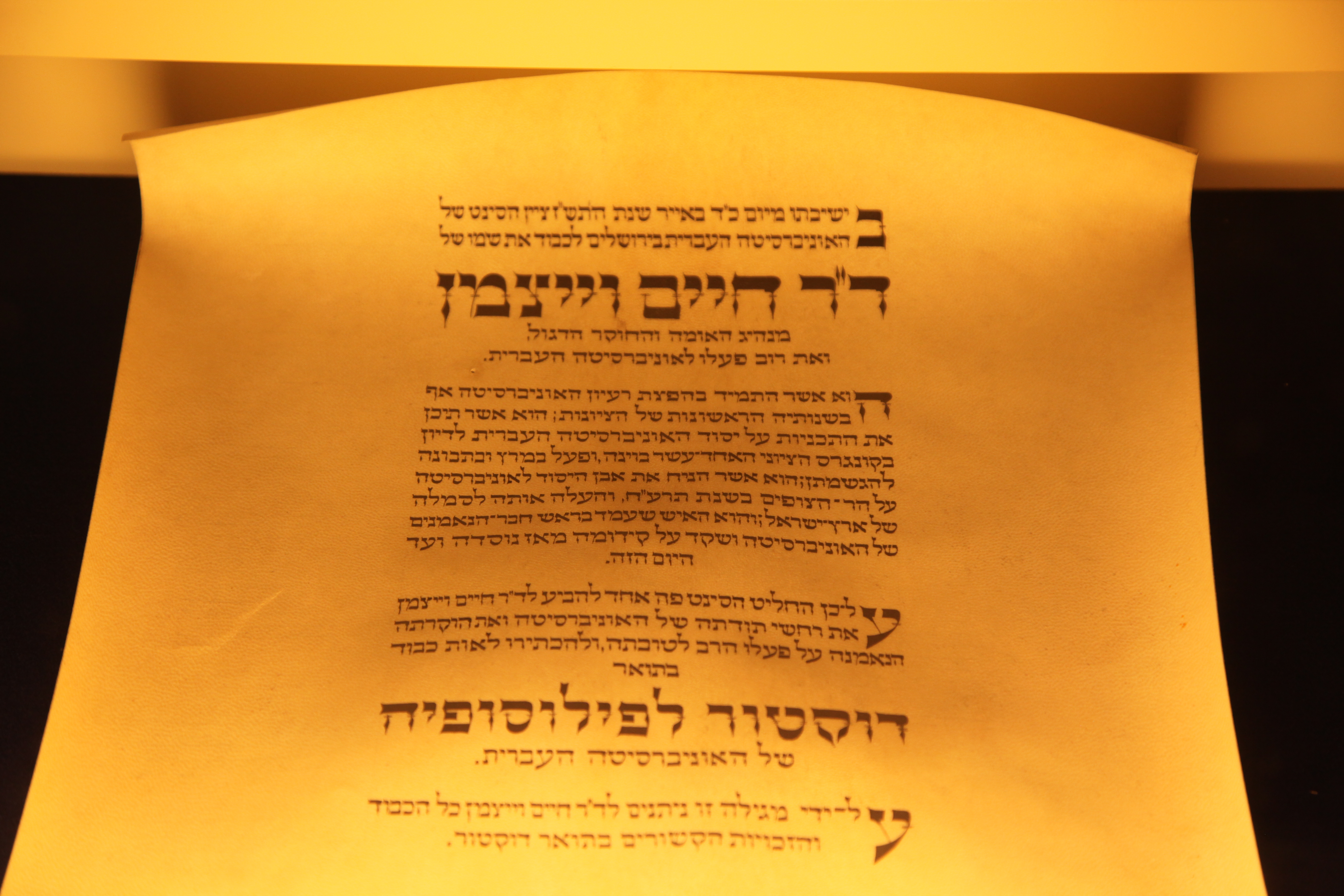 Weizmann's laboratory